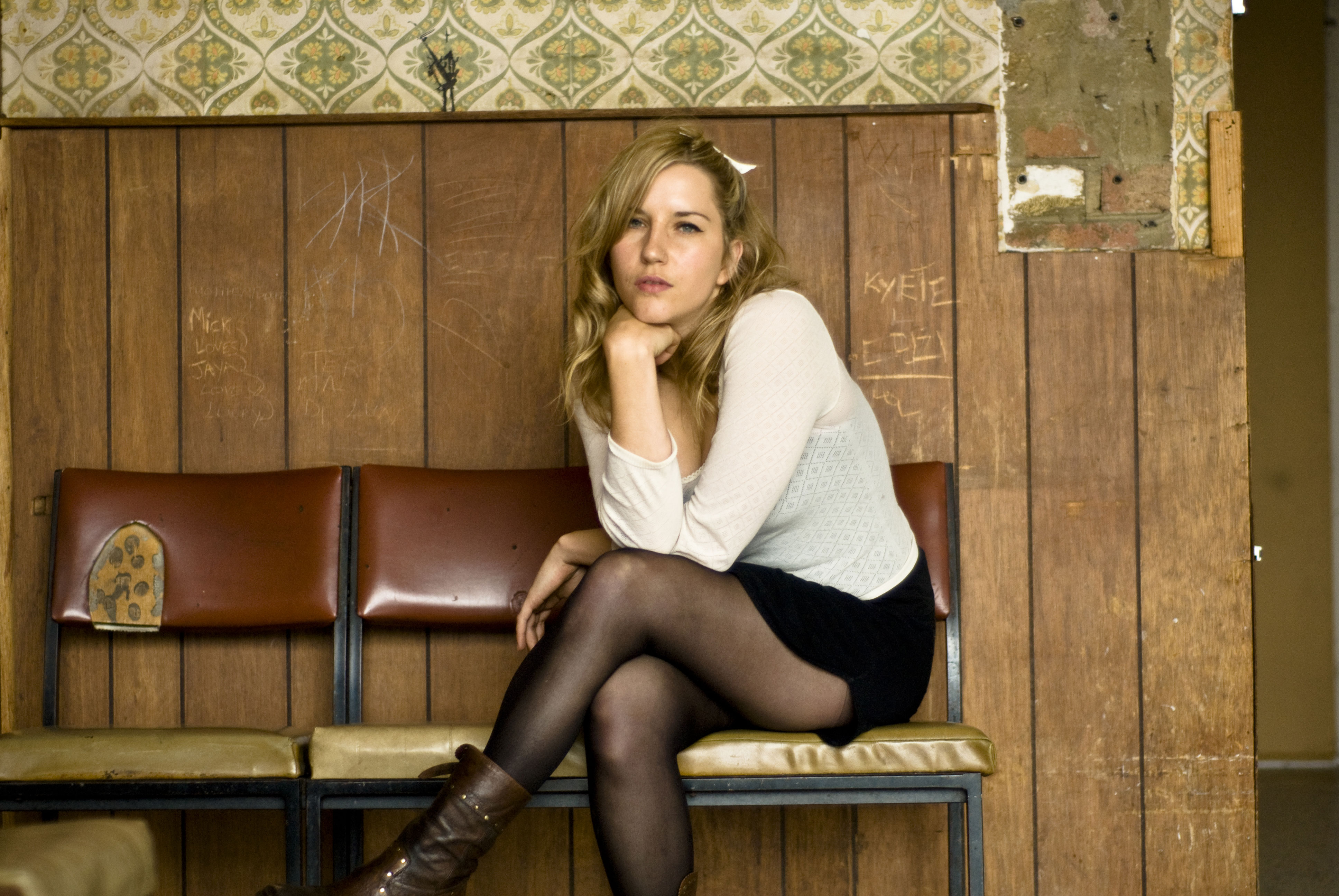 Actress Anya Beyersdorf poses in a Laundrobar